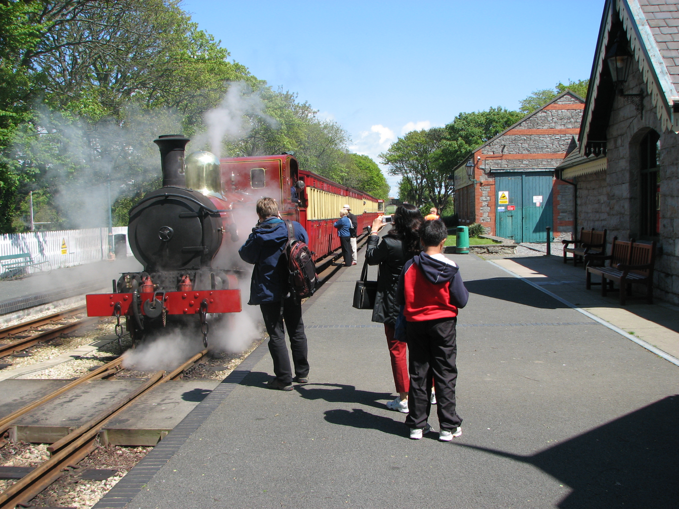 Steam train at Isle of Man